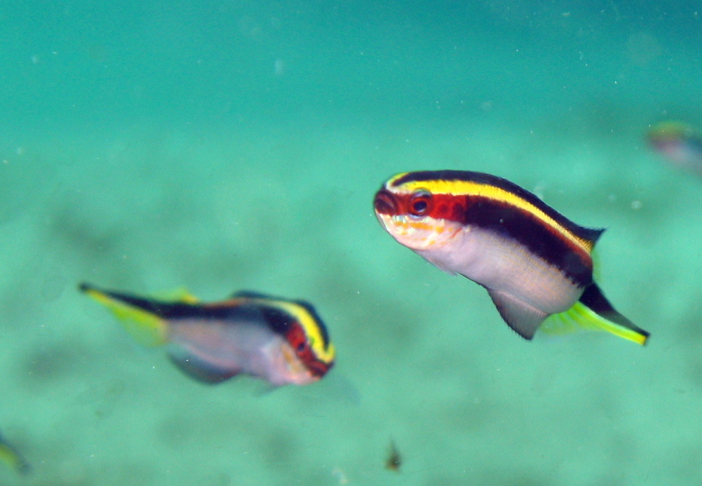 A shoal of Eastern Hulafish (Trachinops taeniatus). Fairy Bower, Manly, NSW